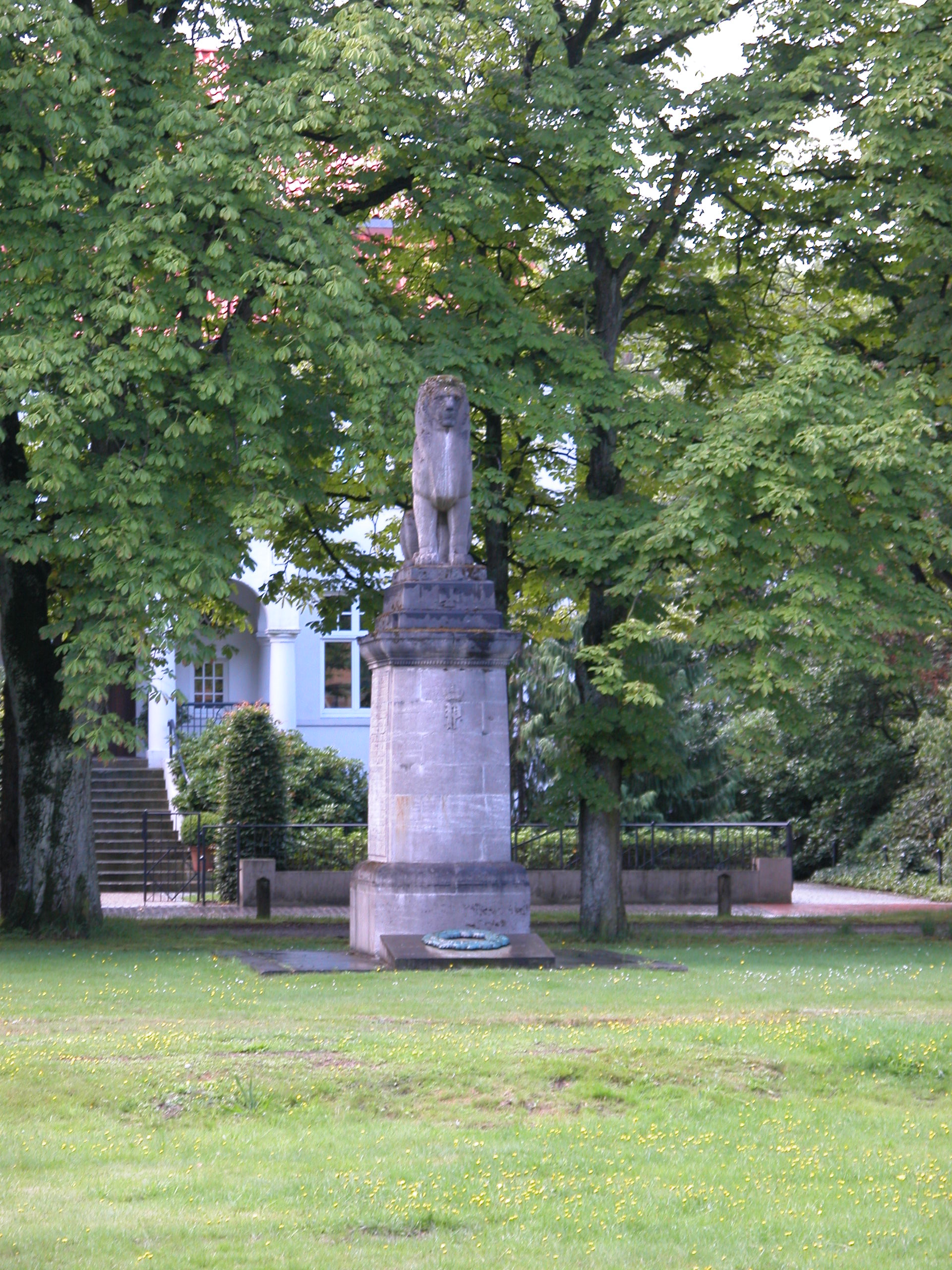 Monument of the Oldenburg regiment of infantery no. 91. Construction by Hugo Lederer 1921. The regiment was founded in 1813 and dissolved in 1919 as a result of the First World War. Position from 1921 until 1960 Oldenburg (Oldb), Schloßplatz, than until now Theodor-Tantzen-Platz.